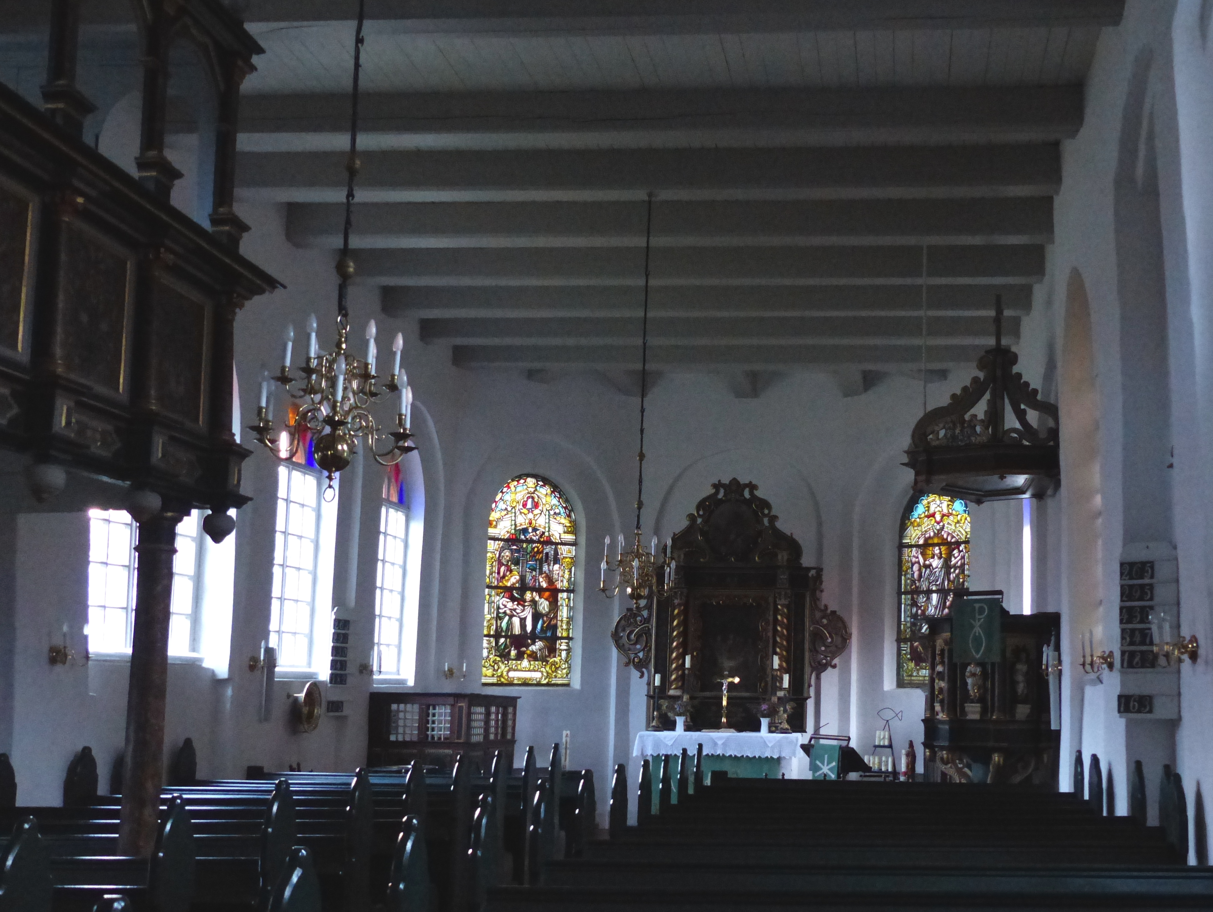 Interior of Neuenwalde Convent church 53°40′34″N 8°41′31″E / 53.6761344°N 8.6919211°E